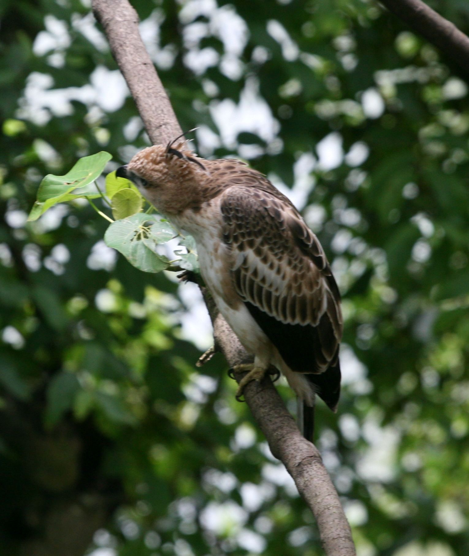 Jerdon's Baza